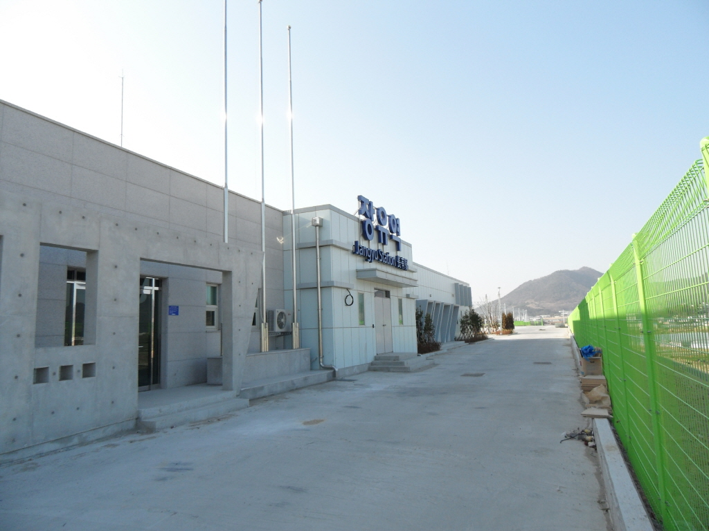 Korail Jangyu Station